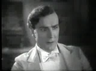 Frank Merrill as Tarzan/Lord Greystoke in Tarzan the Tiger (1929)